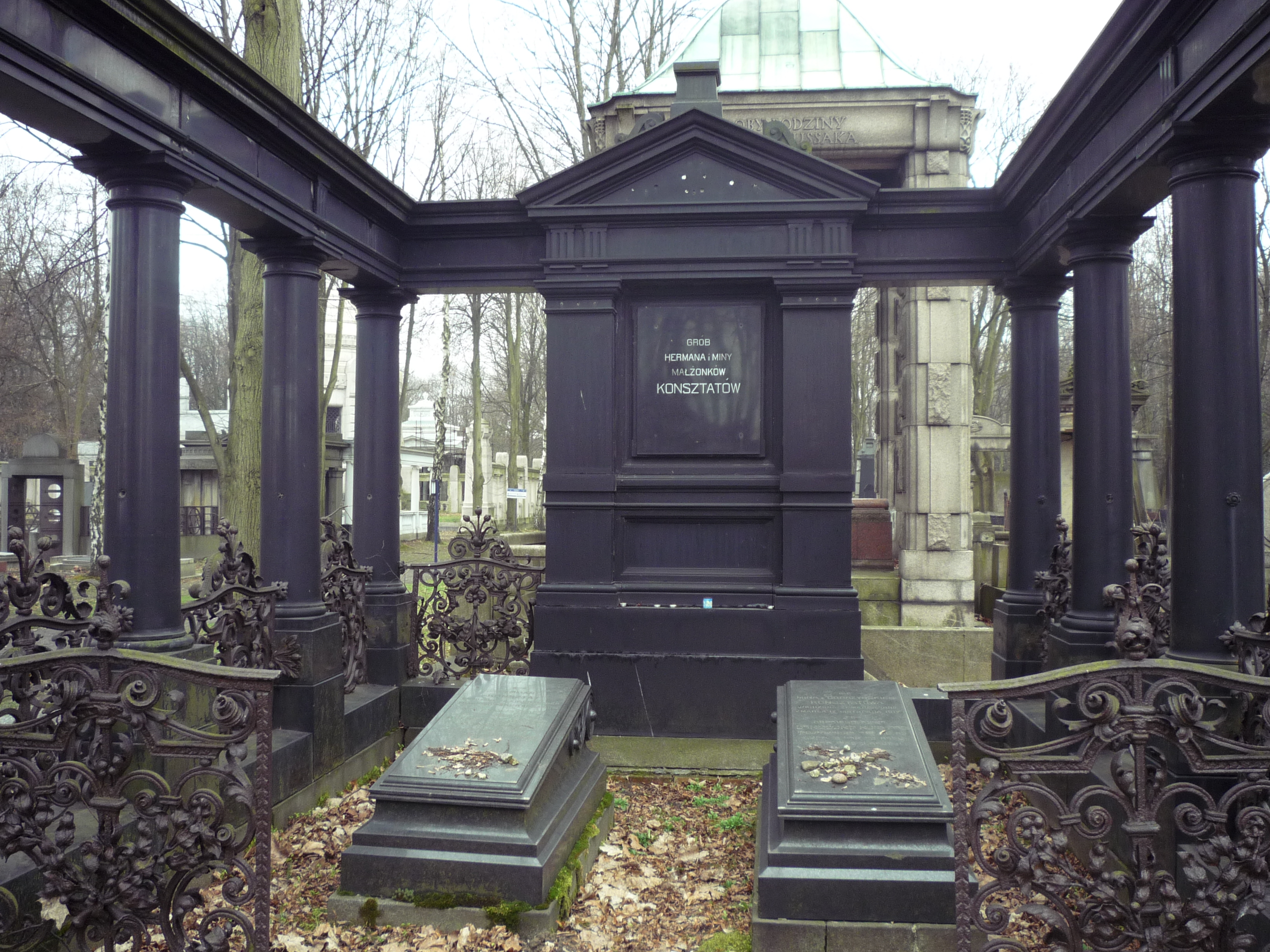 Herman and Mina Konstadt grave on New Jewish Cemetery in Łódź